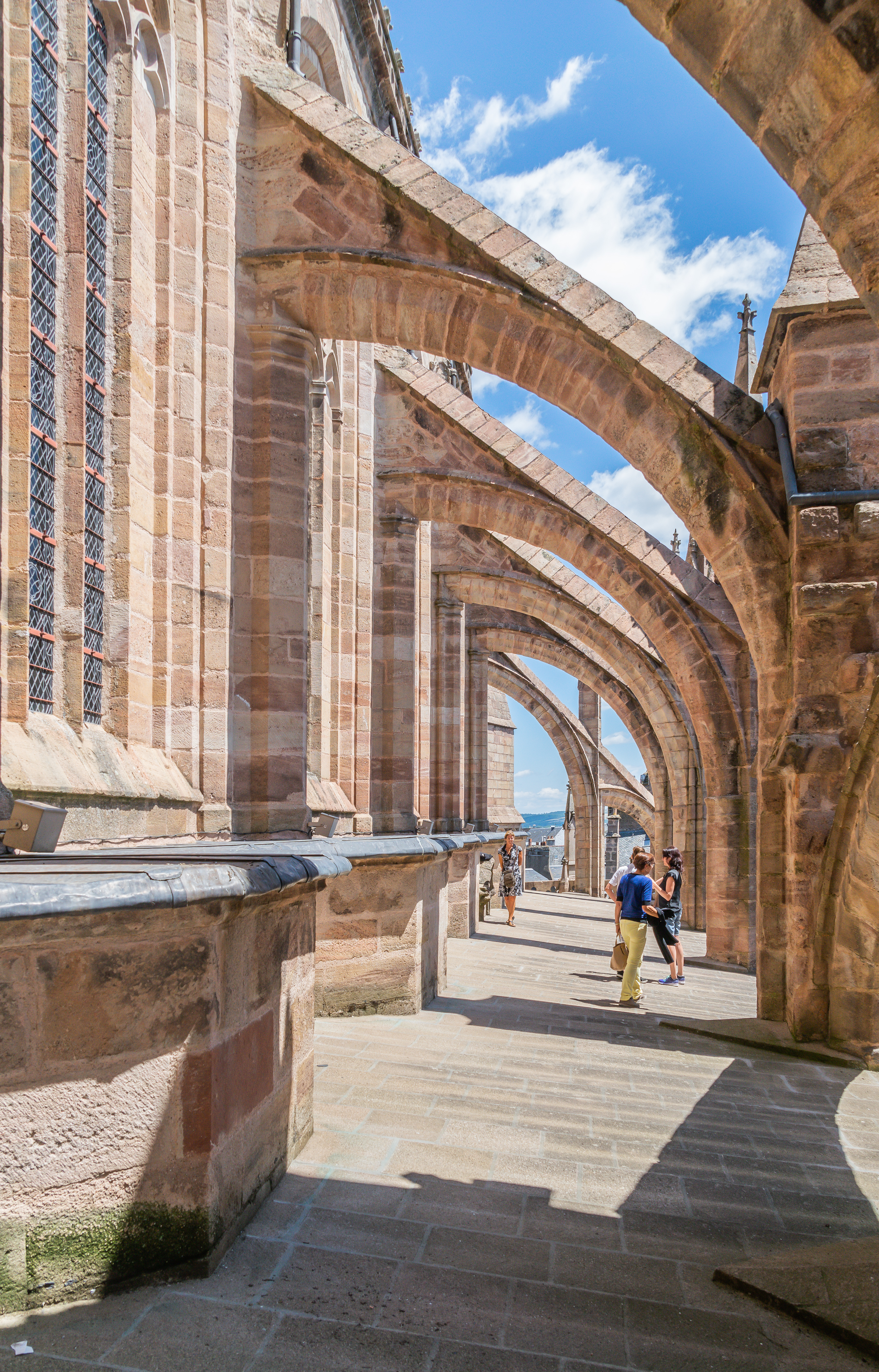 Flying buttresses of the cathedral of Our Lady of the Assumption of Rodez, Aveyron, France .